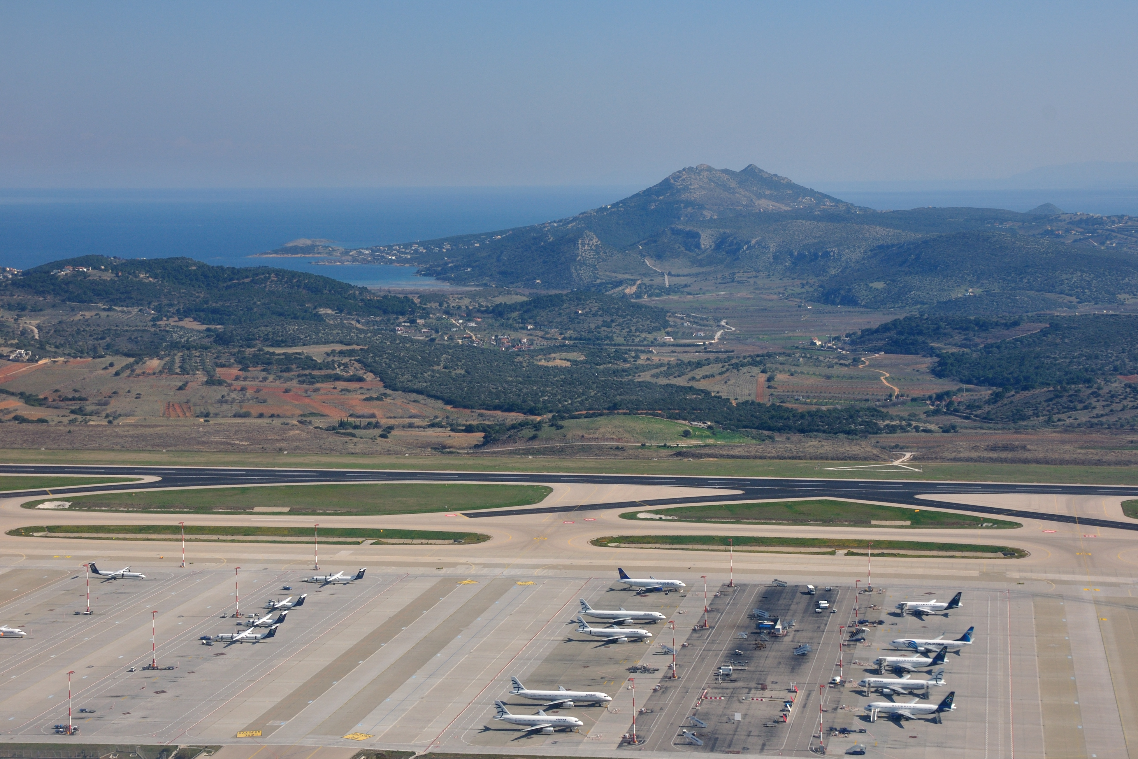 Greece, aerial view of Athens International Airport